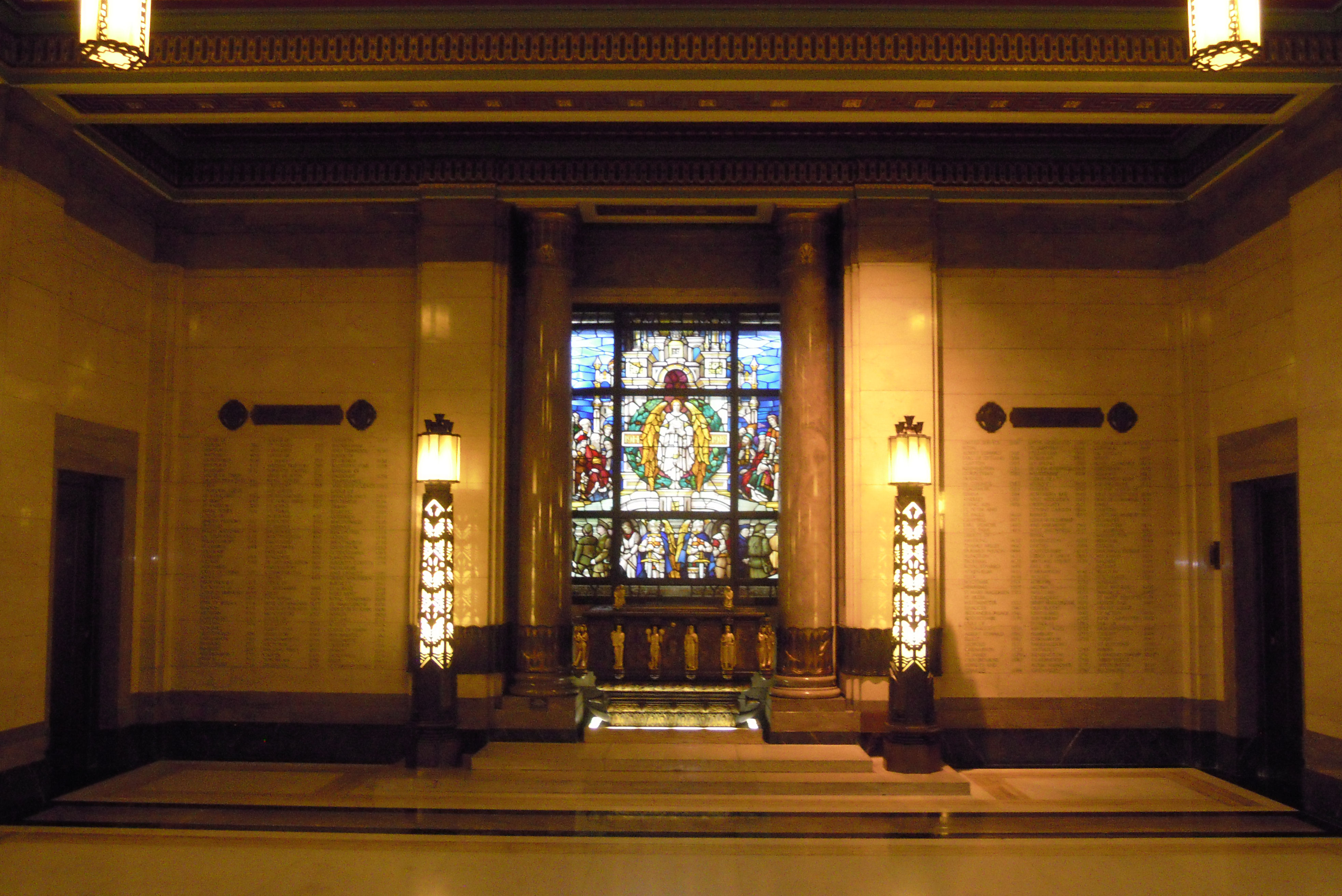 The War Memorial at Freemasons' Hall, London